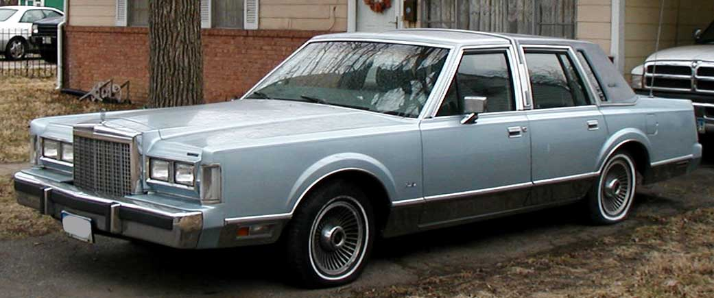 Lincoln Town Car photographed in College Park, Maryland, USA.